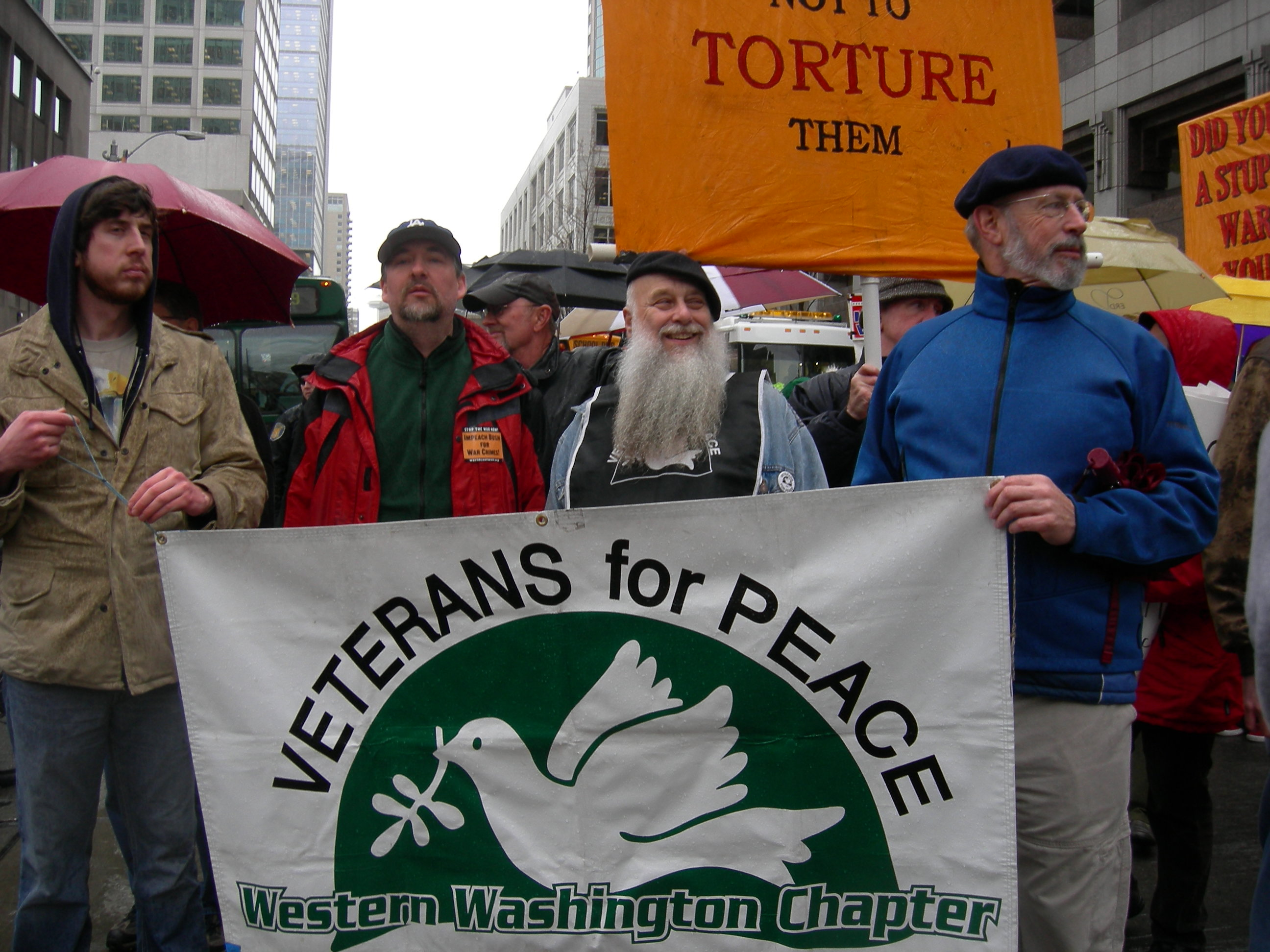 Anti-war demonstration, Seattle, Washington, 19 March 2007. "Veterans for Peace" sign.